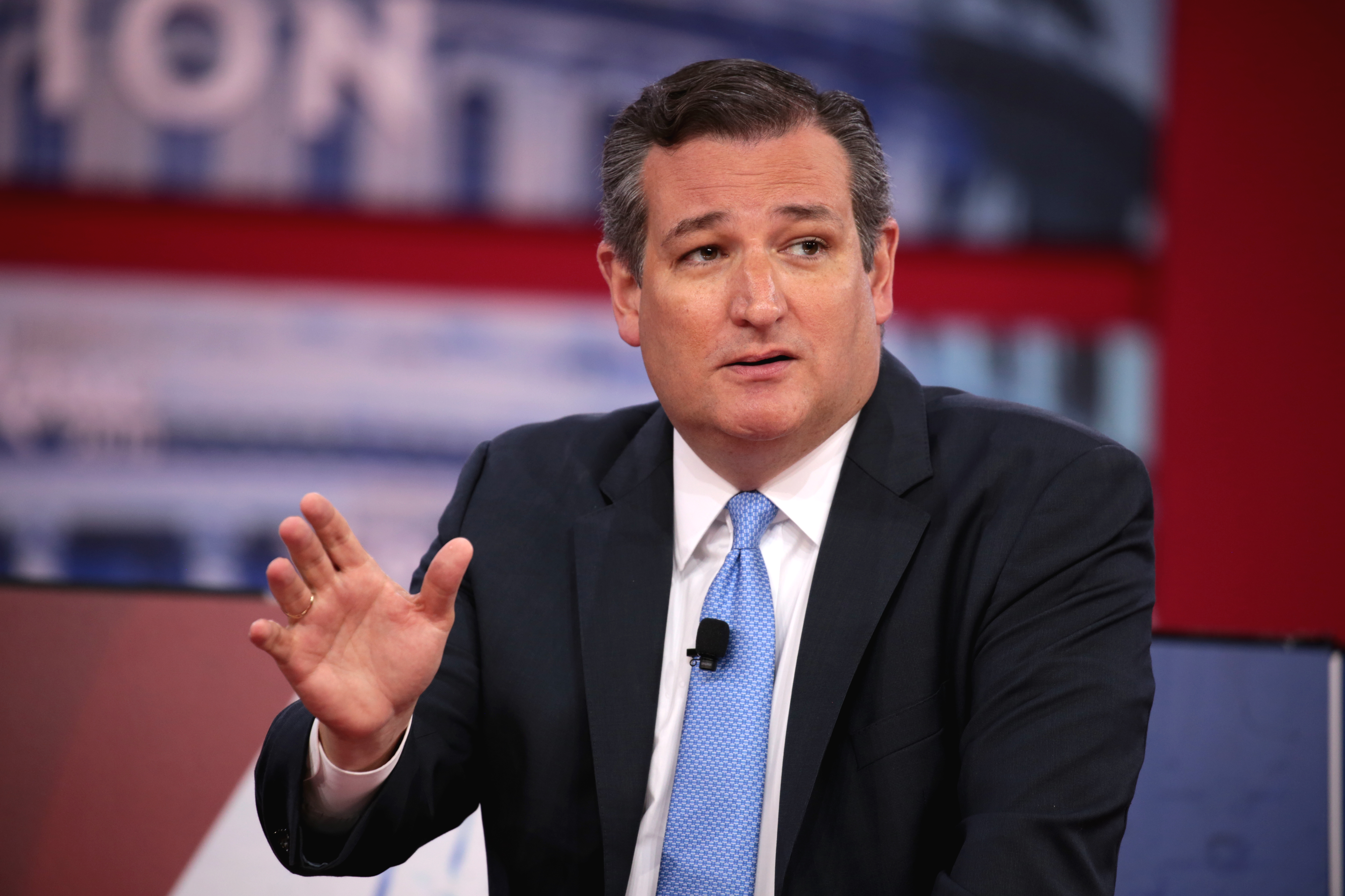 U.S. Senator Ted Cruz of Texas speaking at the 2018 Conservative Political Action Conference (CPAC) in National Harbor, Maryland.